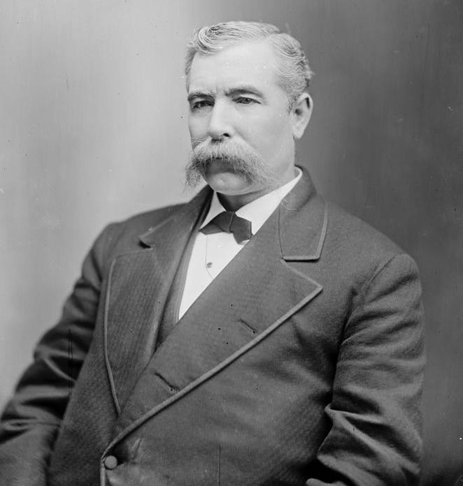 T. L. Young